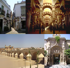 Mosaic with images of Historic Centre of Cordoba.